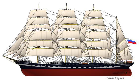 Drawing of the Russian sailing ship Kruzenstern